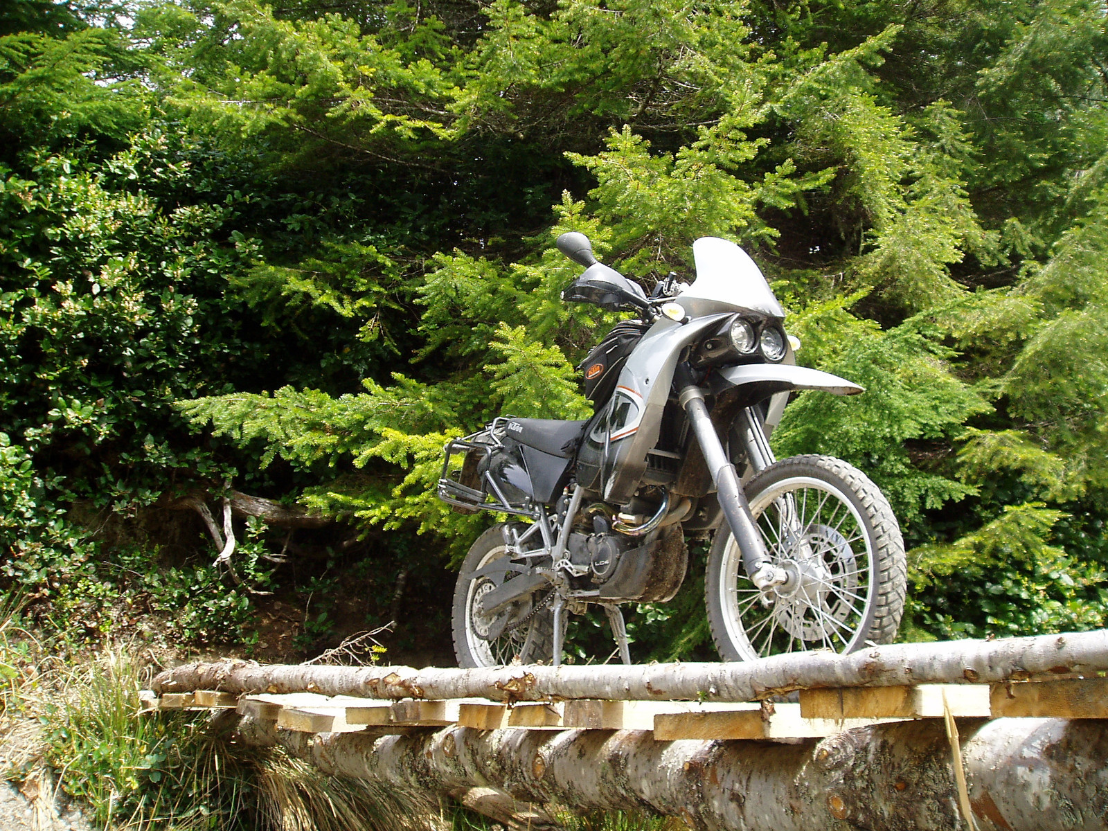 enduro and adventure motorbike manufactured by KTM.